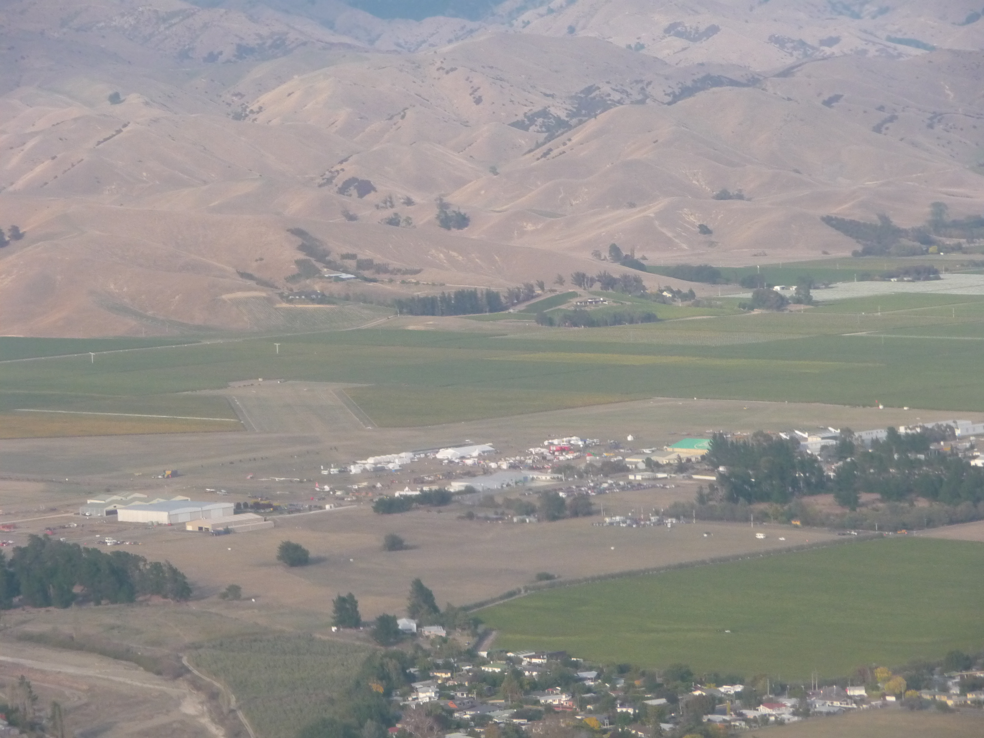 Omaka Aerodrome from the air, looking south-west; the day before the 2015 Classic Fighters air show. The darker green areas around the aerodrome are vineyards. The image was taken while on approach to Woodbourne Airport, when almost in line with Runway 19. There are two large white temporary structures erected for the air show in the middle, these are parallel to Runway 07/25; the Runway 07 threshold is in the corner formed by two vineyards in the middle right of the image. Runway 12/30 stretches across the middle of the image, with the runway 12 threshold near the hangars on the extreme right; the Runway 30 threshold is beyond the image on the left. The largest building on the left houses the Omaka Aviation Heritage Centre.